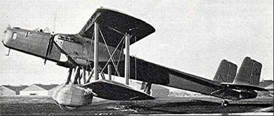 Handley Page Heyford